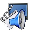 Multimedia icon: television, movie clapperboard, speaker.